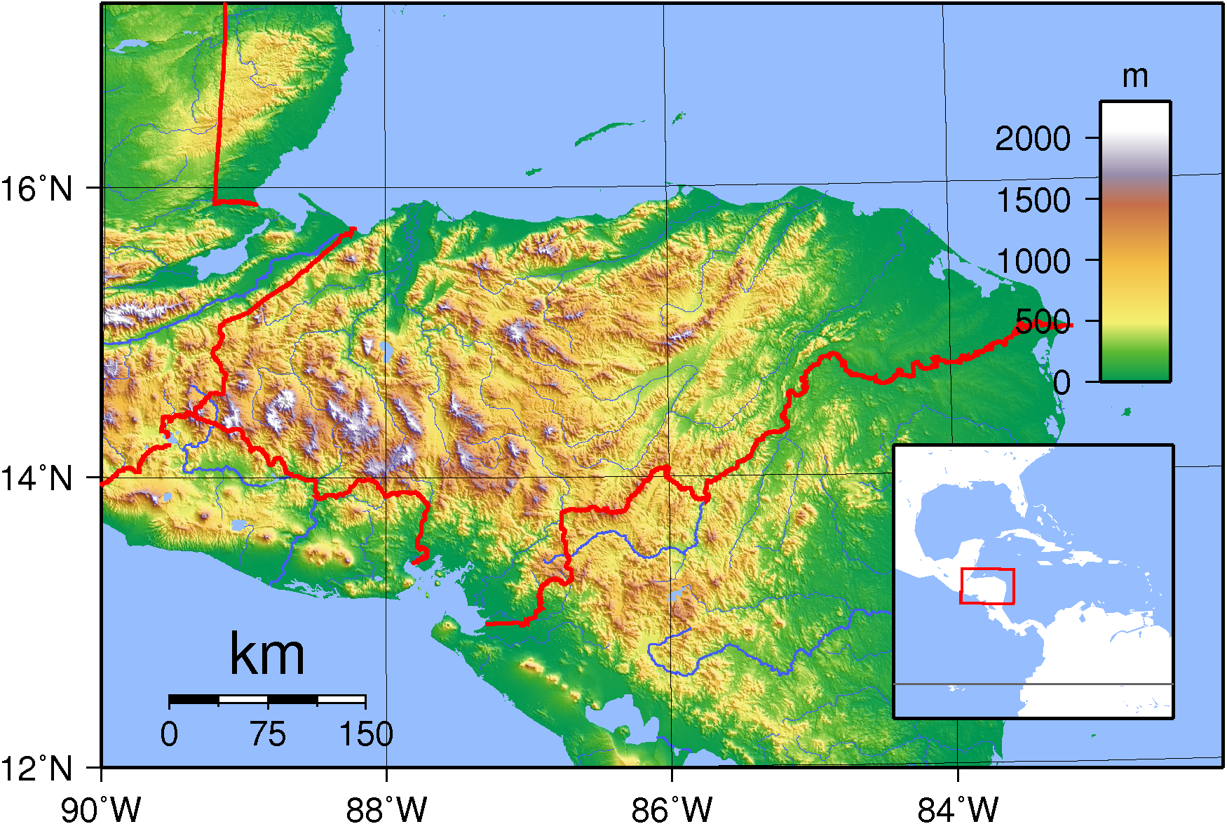 Topographic map of Honduras. Created with GMT from SRTM data.